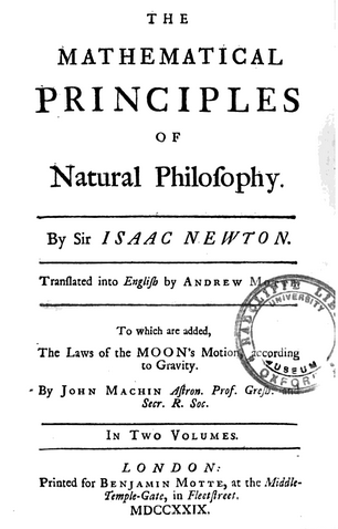 Frontpage of Newton's Principia published in 1729 with John Machin's (1680-1751) addendumm about Moon motions